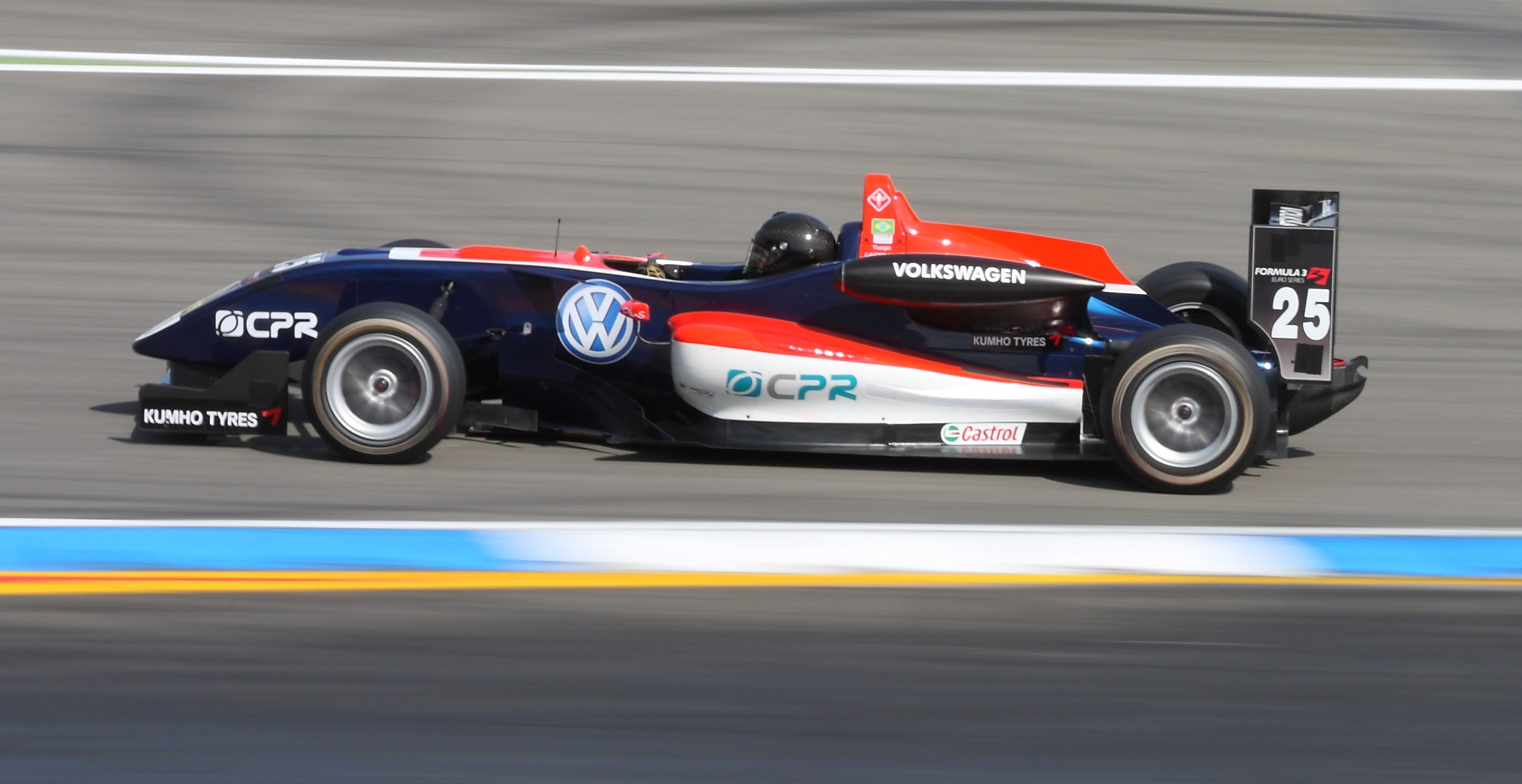 Formula 3 Euroseries, Hockenheimring, #25 Tiago Geronimi